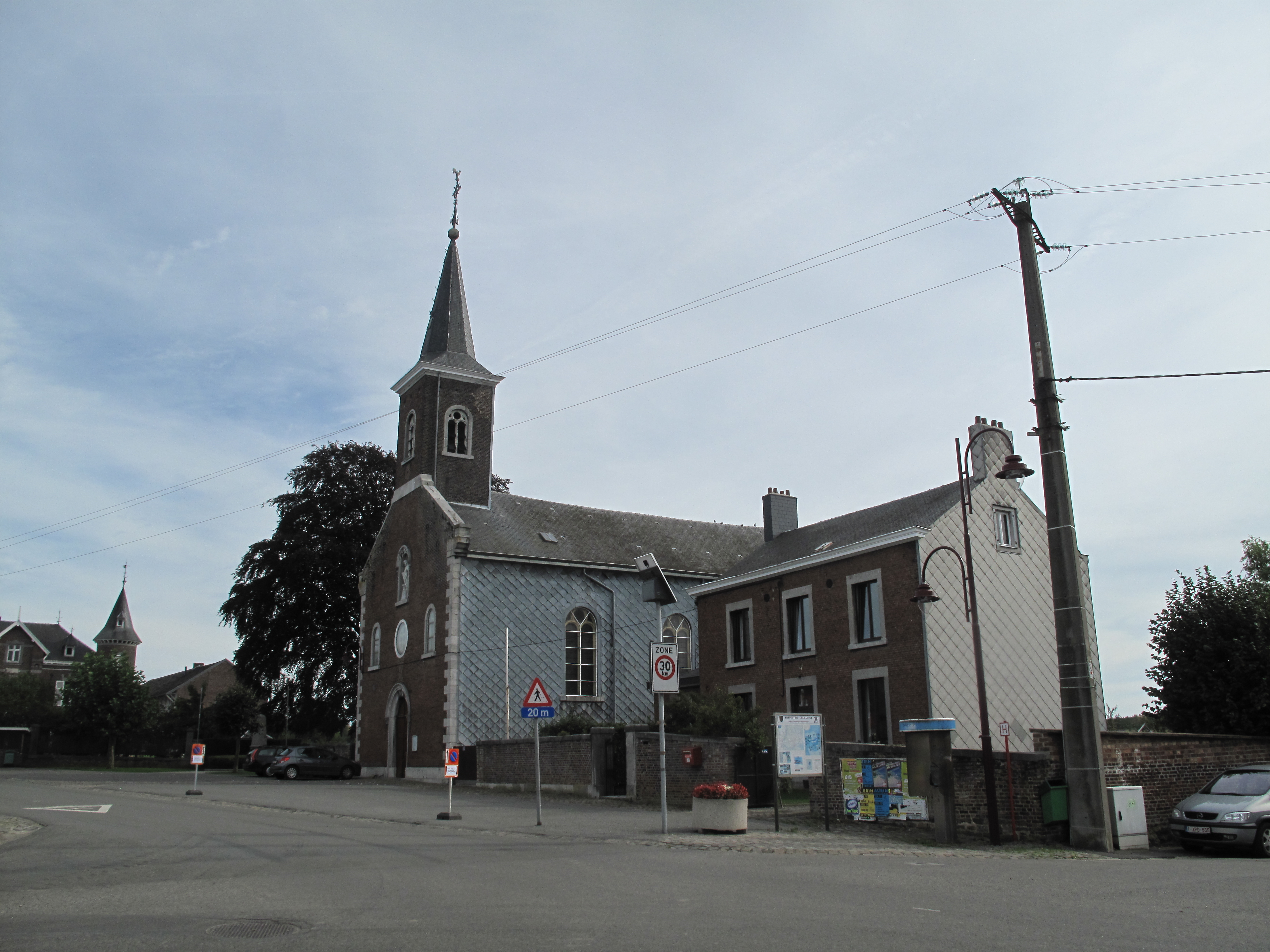 Froidthier, church in the street